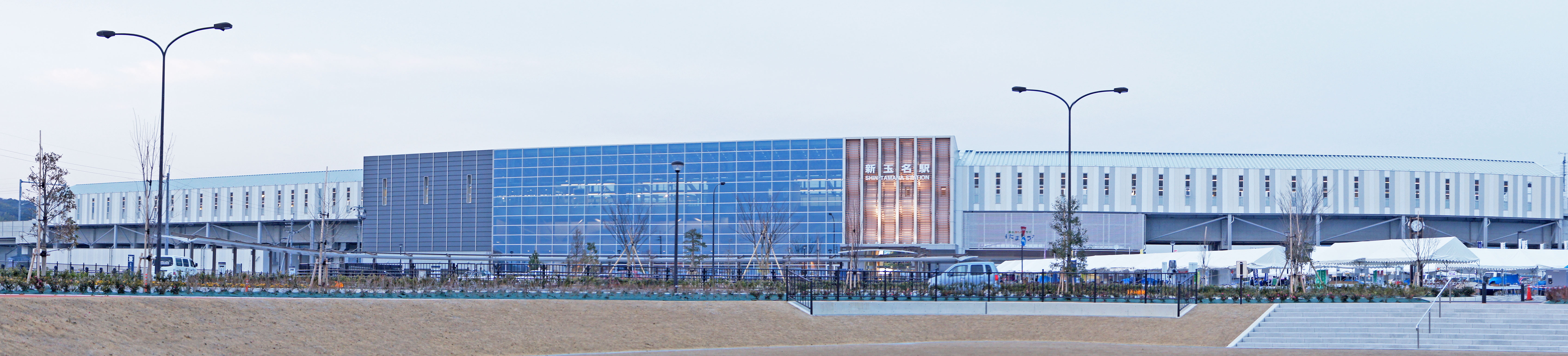 A panorama of Shin-Tamana Station on the Kyushu Shinkansen